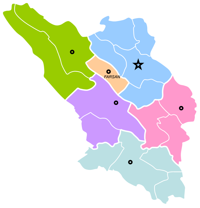 Map of Farsan sharestan in Chahar Mahal and Bakhtiari province, Iran